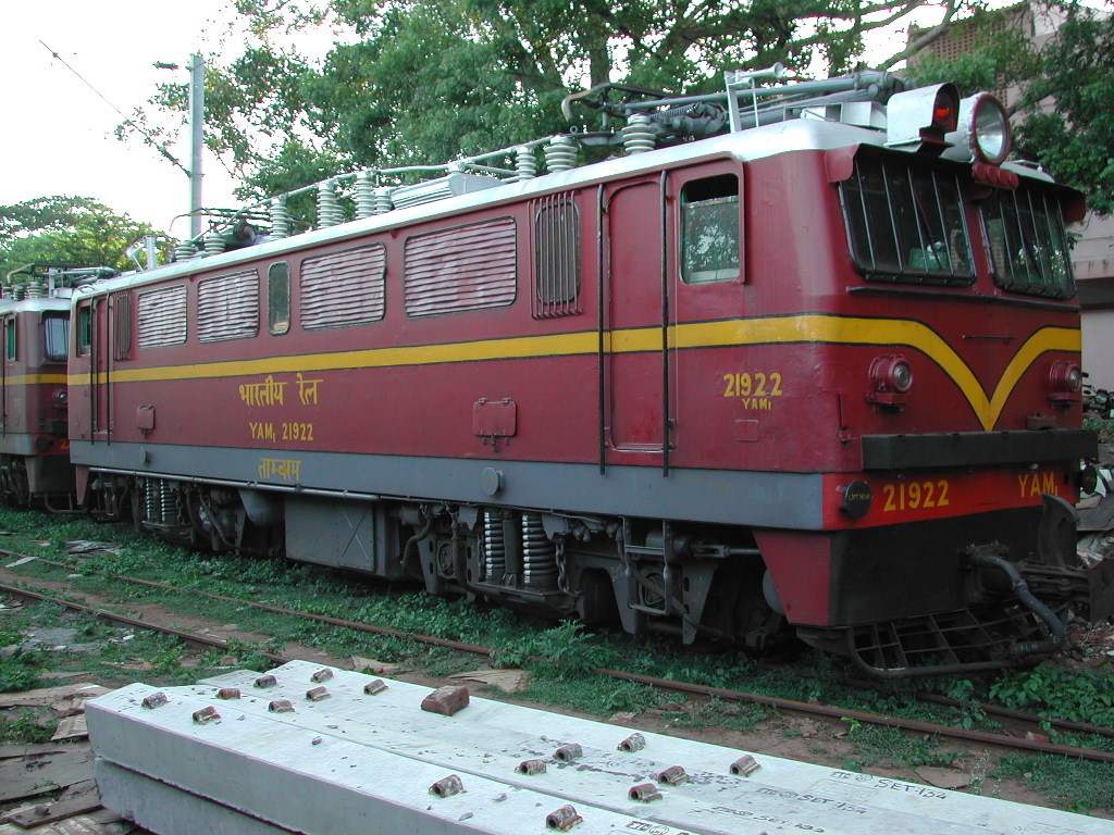 The metre-gauge electric loco - YAM1. This is #21922.These locomotives were in service until 2002 near Chennai at Tambaram